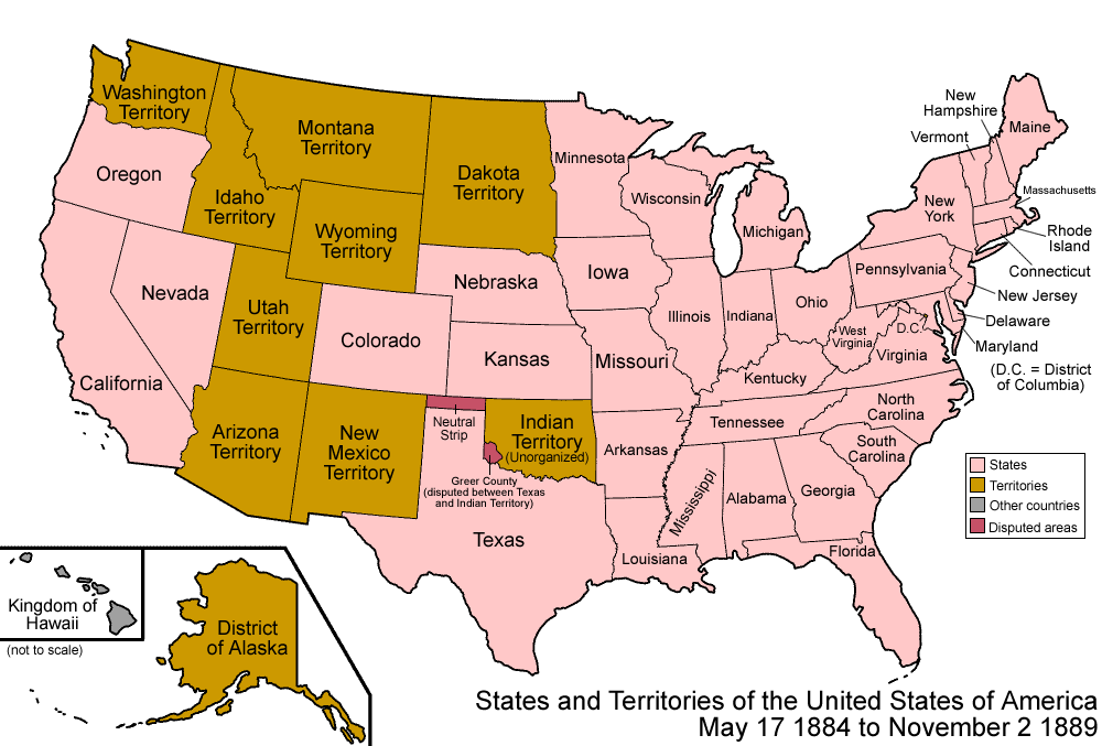 Map of the states and territories of the United States as it was from 1884 to November 2 1889. On May 17 1884, the Department of Alaska was redesignated the District of Alaska. On November 2 1889, Dakota Territory was split and admitted as the states of North Dakota and South Dakota.